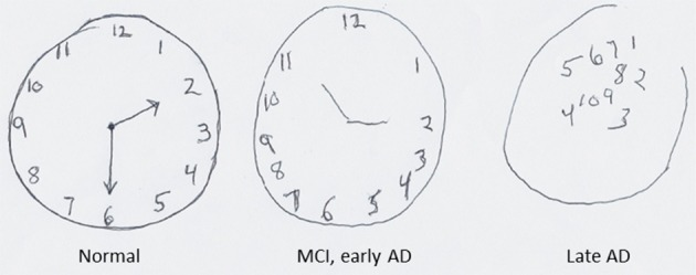 The progressive deterioration of pattern processing ability in a subject as they progress from mild cognitive impairment (MCI) to severe Alzheimer's disease (AD). In this clock drawing task the subject is asked to draw a clock with the hours and showing the time 2:30. When the person has MCI/early AD the numbers for the hours on the clock are drawn in proper order, but during the time it took to draw the clock the subject forgot that he/she had been asked to show the time 2:30. In the case of the patient with late-stage AD, the drawing bears little resemblance to a clock.